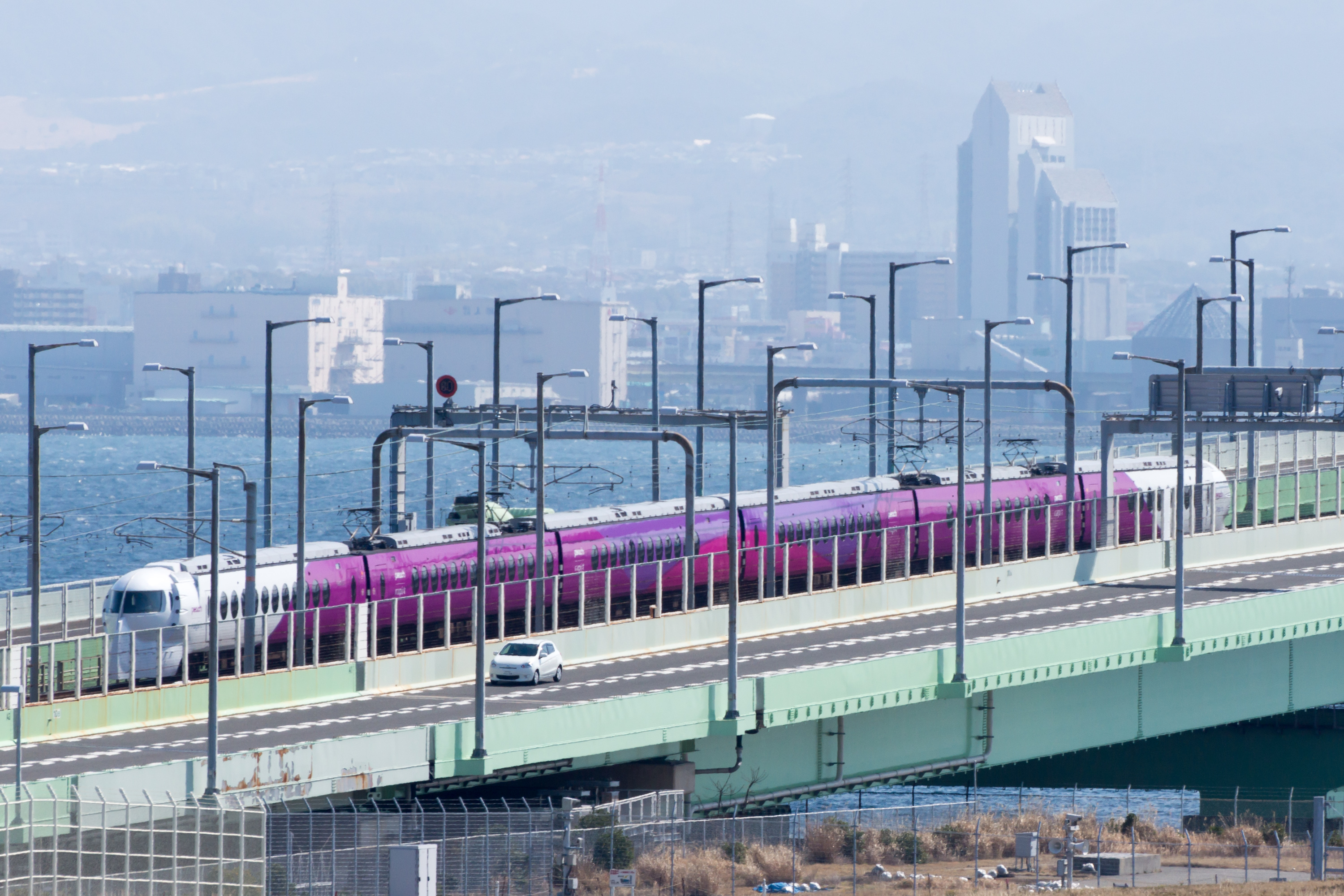 Nankai railways airport express "rapi:t" with special marking